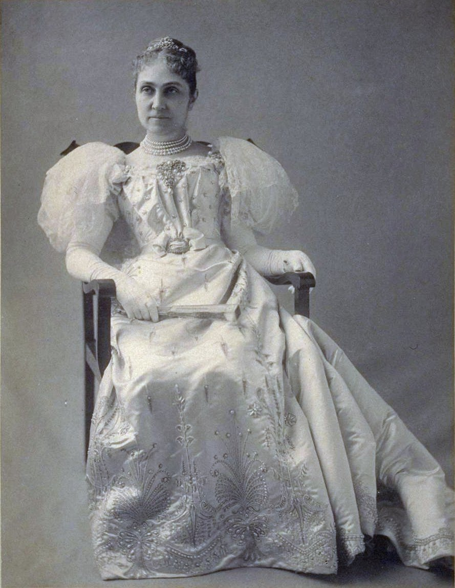 Phoebe Hearst (1842-1919), first woman Regent of the University of California. Wife of George Hearst and mother of William Randolph Hearst.